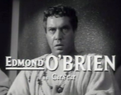 Cropped screenshot of Edmond O'Brien from the trailer for the film Julius Caesar (1953).